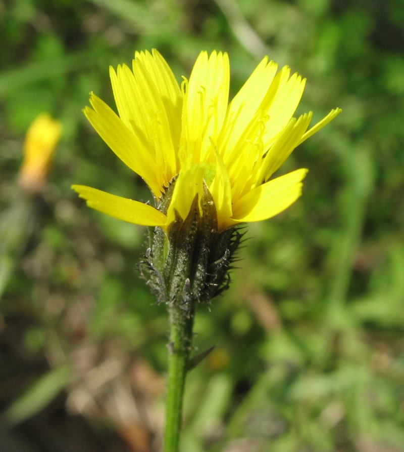 Photograph of Picris hieracioides var. glabrescens ,taken in Tama city, Tokyo, Japan.